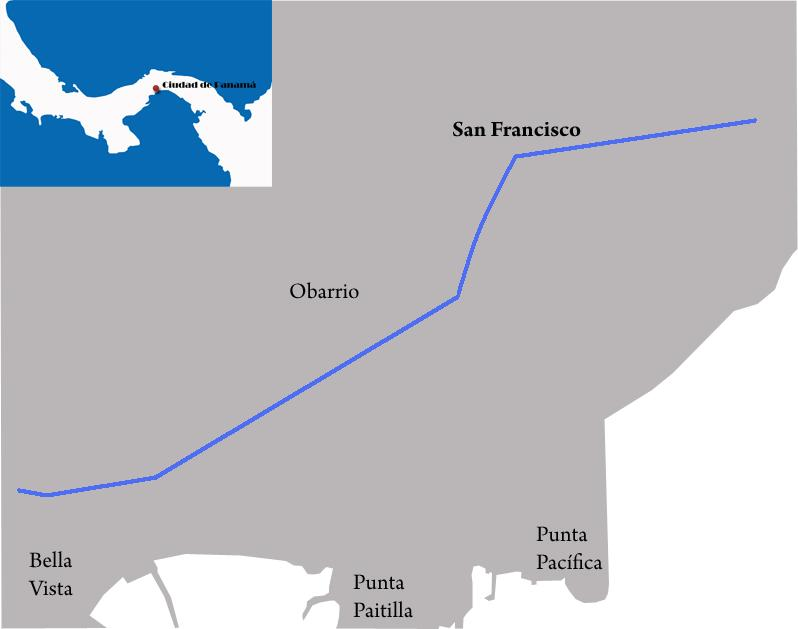 Map of Calle 50, Panama City, Panama.